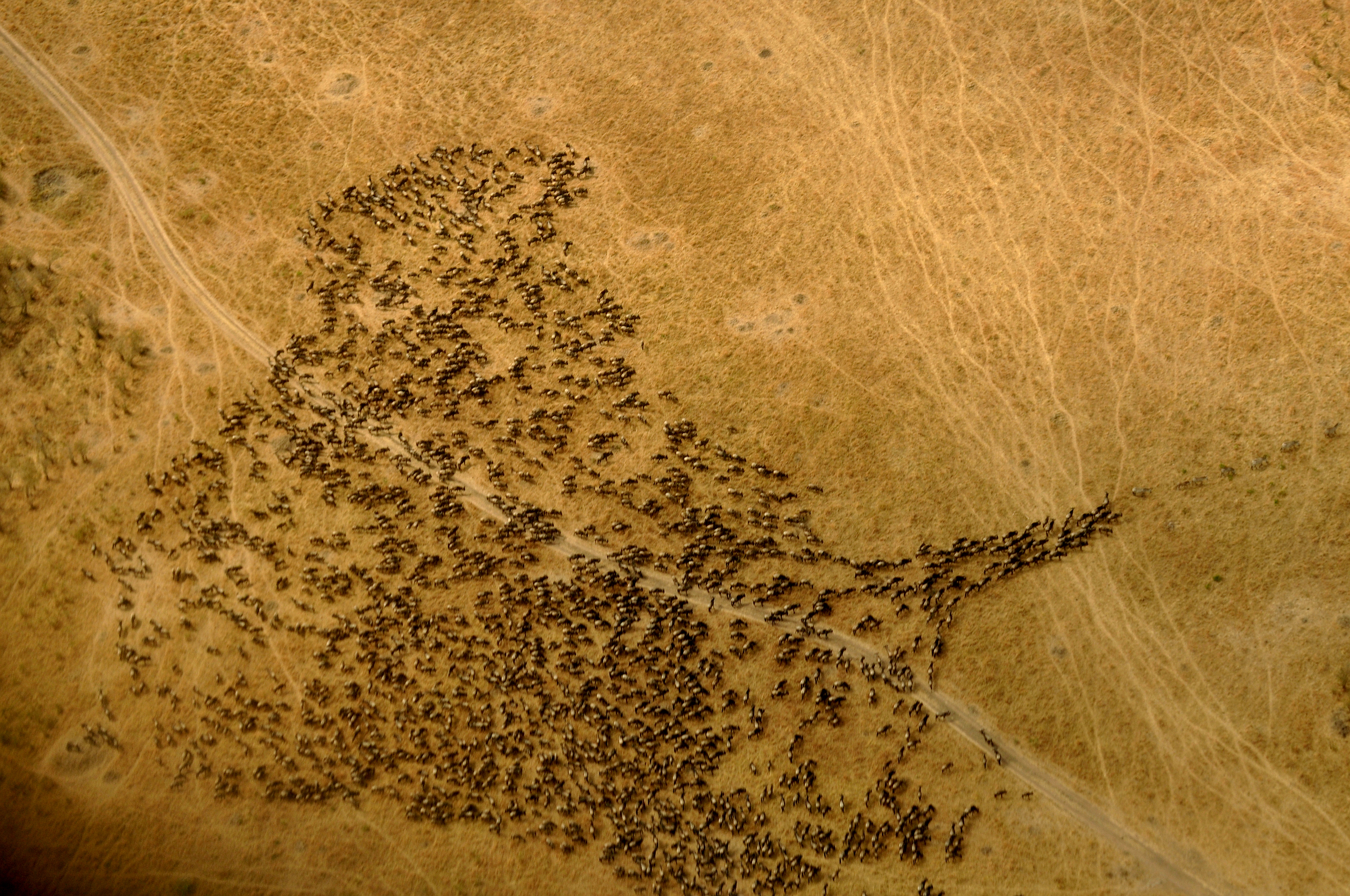 Wildebeest herding and following a few leading zebra in the Masai Mara, Kenya.